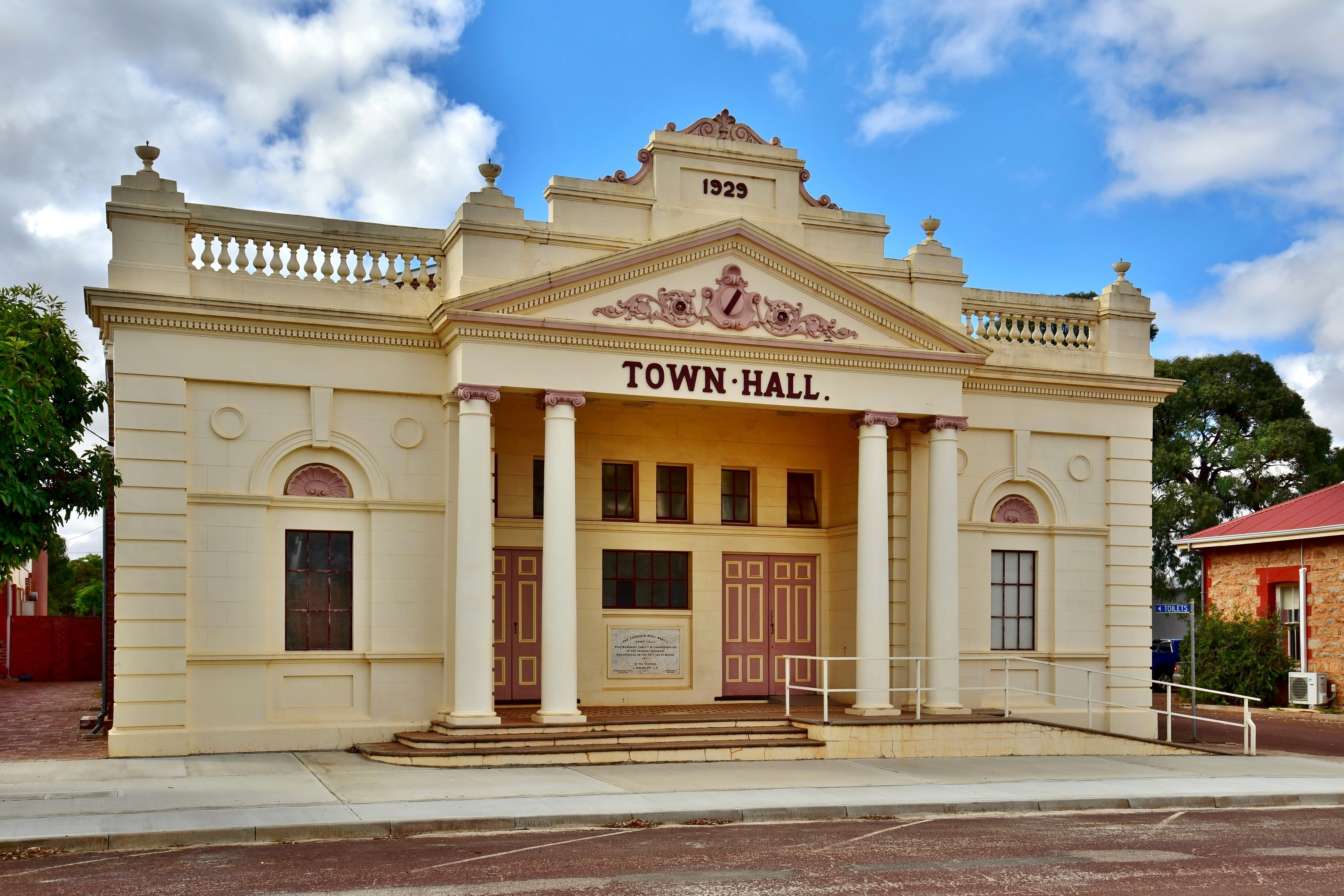 View of the Corrigin Town Hall, Goyder Street, Corrigin, Western Australia